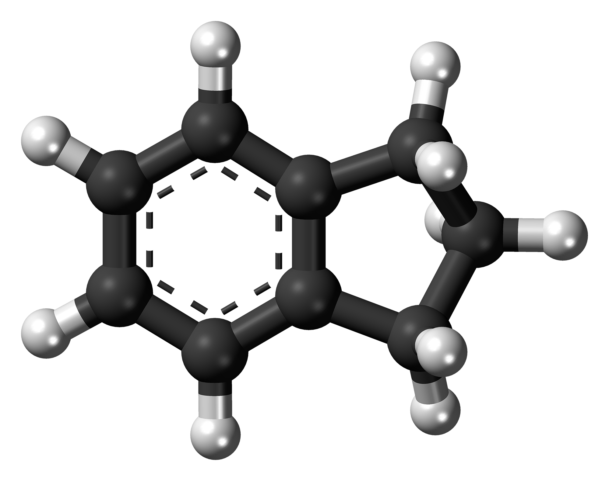 Ball-and-stick model of the indane molecule, an aromatic hydrocarbon. Color code: Carbon, C: black Hydrogen, H: white